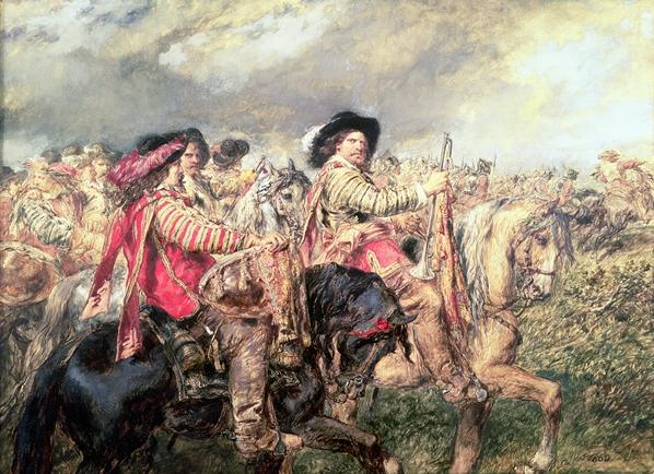 After the Battle of Naseby in 1645